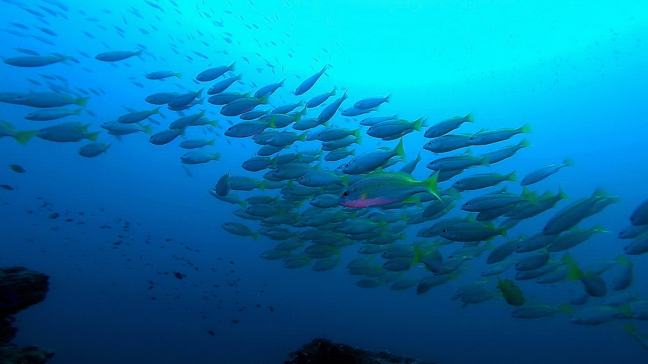 A school of Bigeye Snapper (Lutjanus lutjanus) in the south shore of Long-Dong Bay, a famous scuba diving site located at northeast coast of TAIWAN. This photo was taken by Vincent C. Chen on Sep. 12, 2015